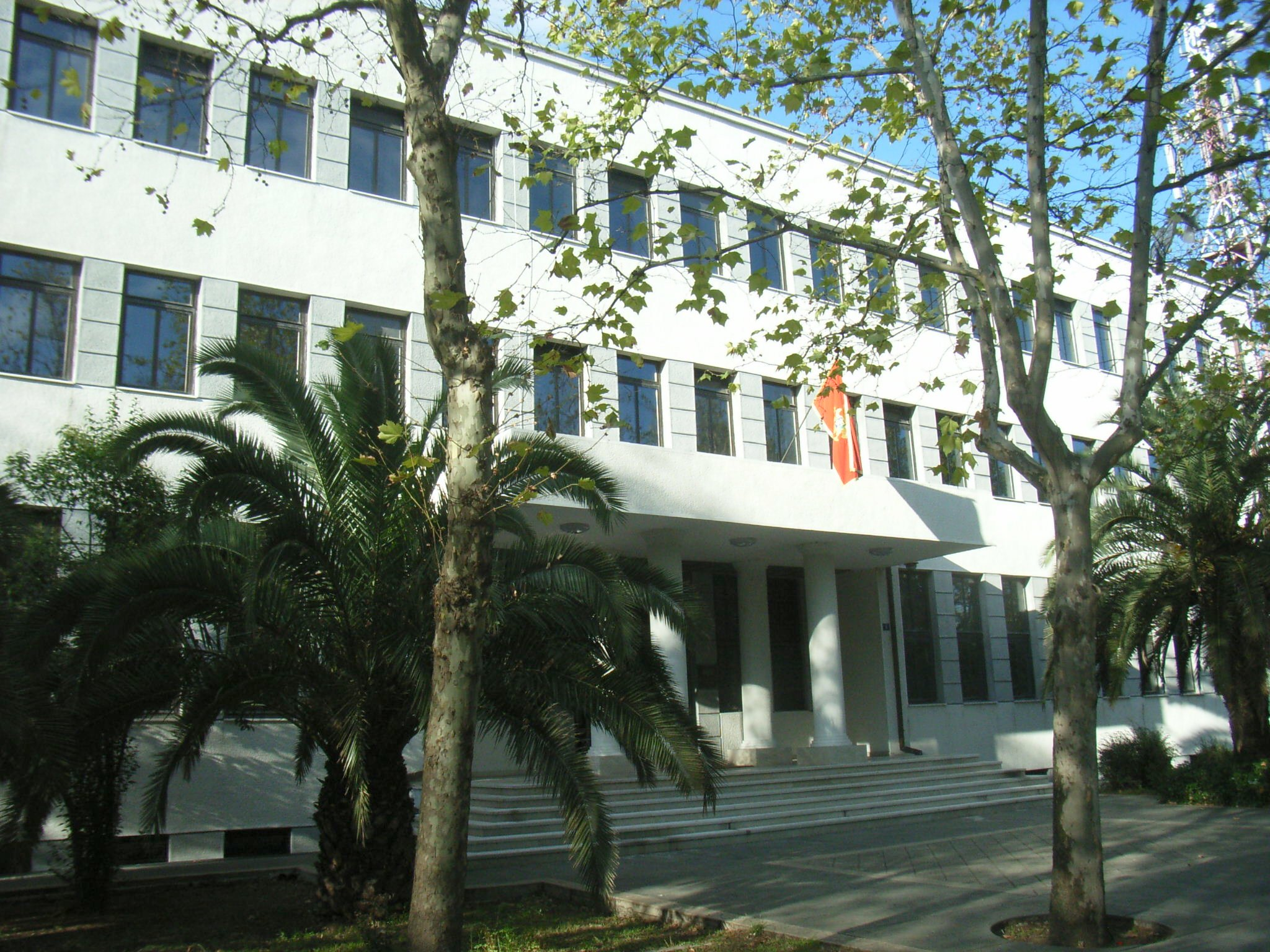 Podgorica, Montenegro: National Bank of Montenegro